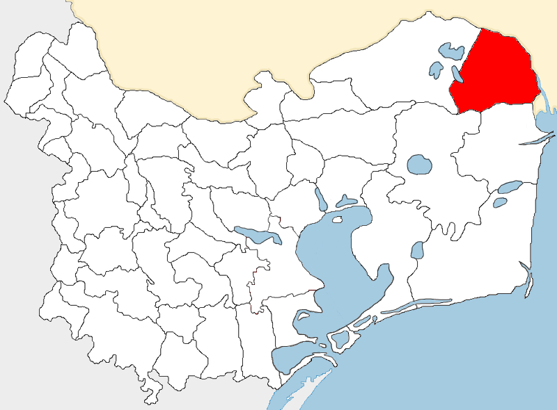 Map of the commune of C.A. Rosetti, Tulcea county, Romania